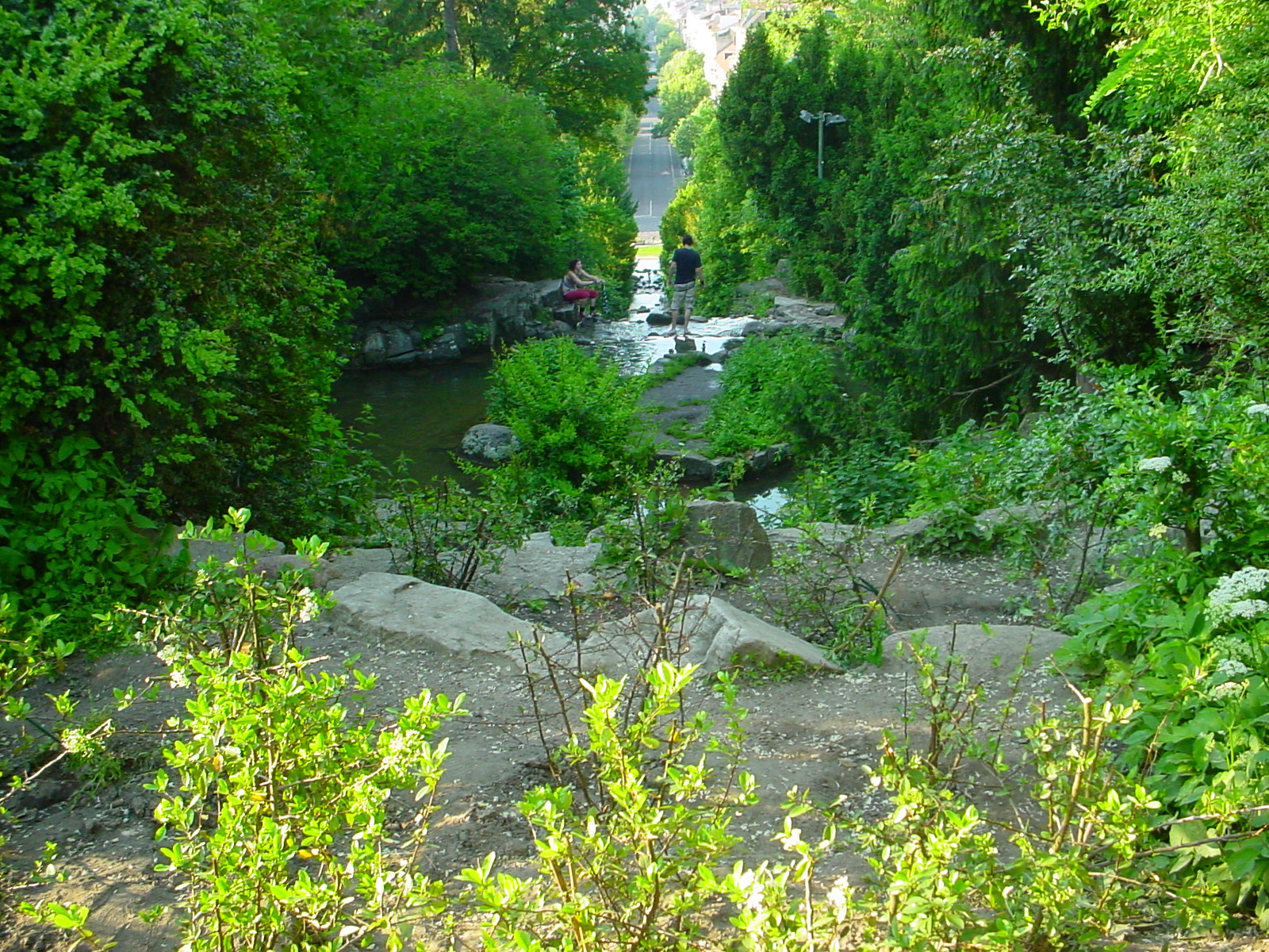 The waterfall in Viktoriapark, Berlin